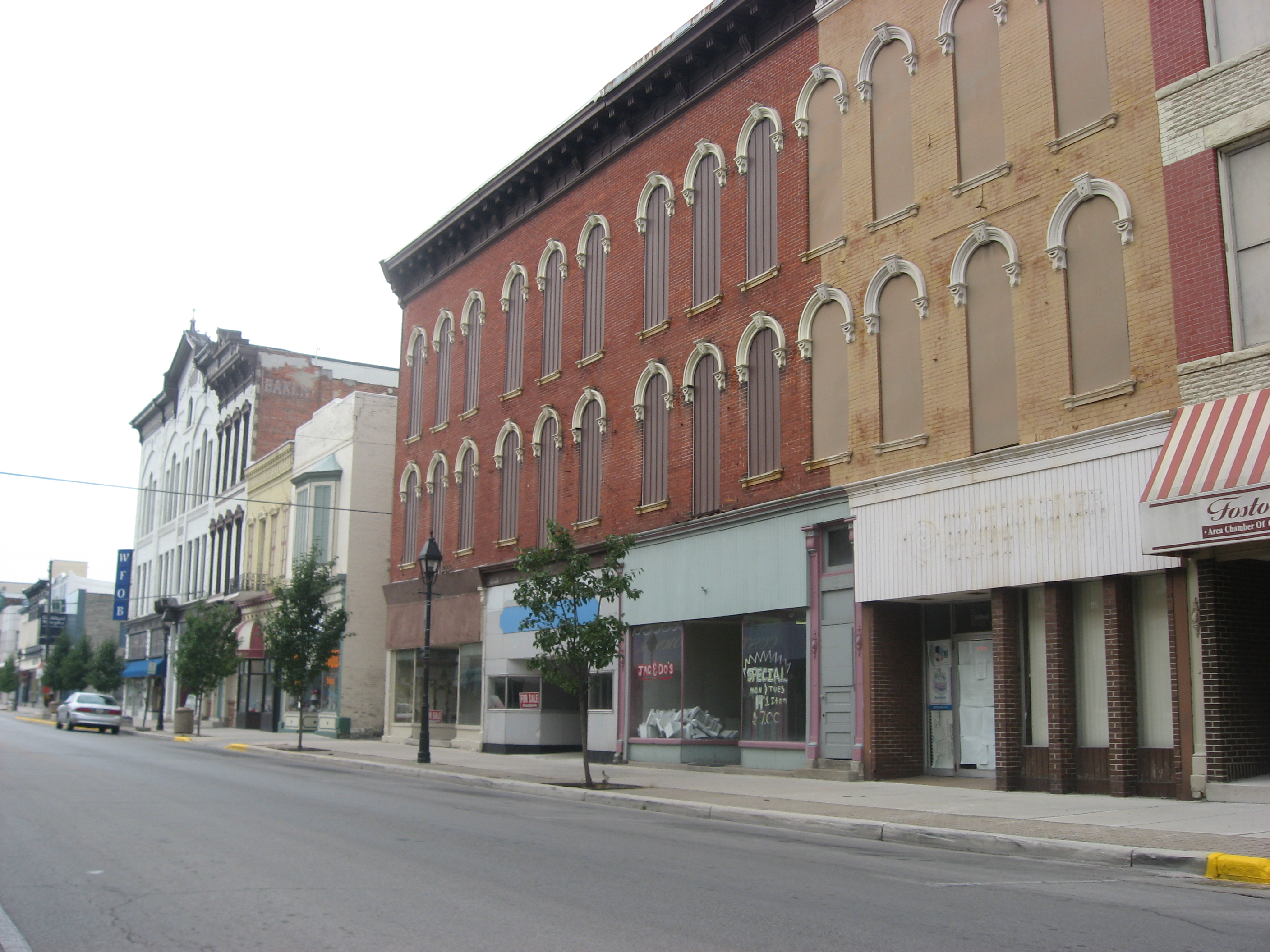 Buildings on the eastern side of the 100 block of N. Main Street (State Route 18) on the Seneca County side of Fostoria, Ohio, United States. These buildings are part of the Fostoria Downtown Historic District, a historic district that is listed on the National Register of Historic Places.